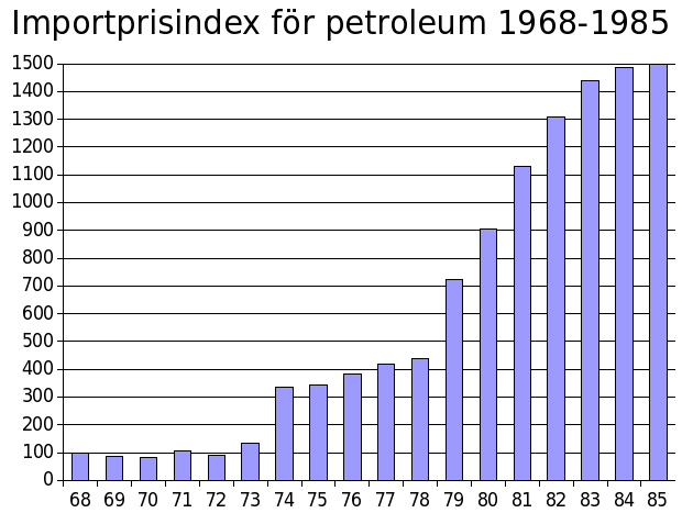 Index of import prices in Sweden for petroleum, 1968 - 1985